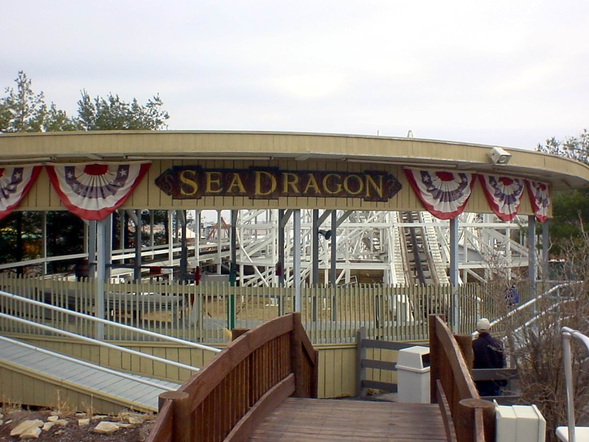 Sea Dragon.